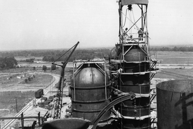 SYLACAUGA, AL - JUNE 19, 1943: Alabama Ordnance Works U.S. Corps of Engineers, Manhattan Engineering District/Courtesy National Archives, photo no. MED 36-2